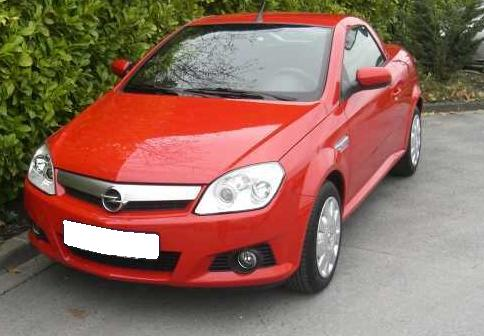 Opel Tigra